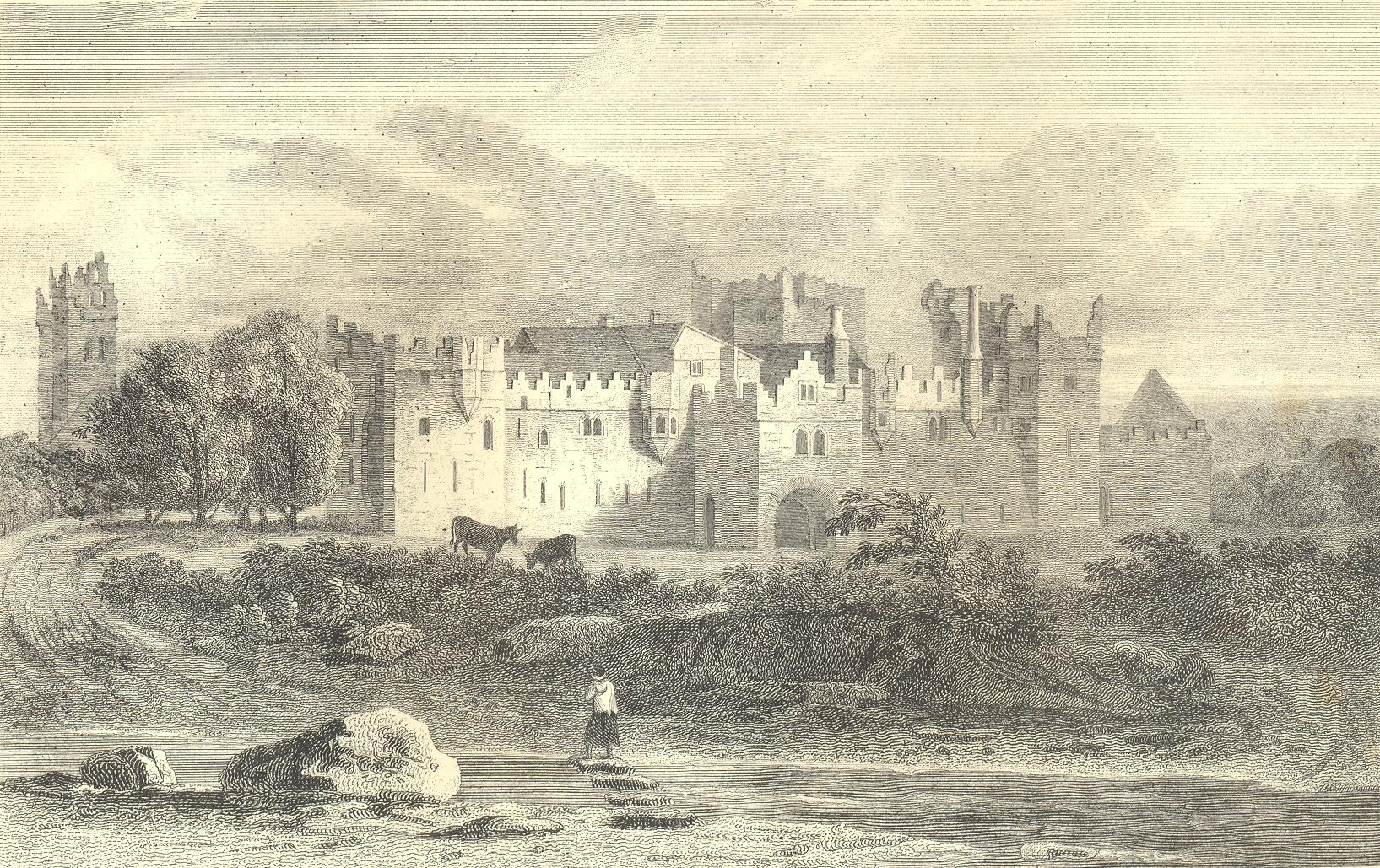 This illustration is from: Monasticon Hibernicum, by Mervyn Archdall, extended edition of Patrick F. Moran, Dublin, 1873, from a separate page between pp. 48 and 49. Following caption is given: “View of the Antient Archiepiscopal Palace. Tallaght, in the County of Dublin.” (sic!)